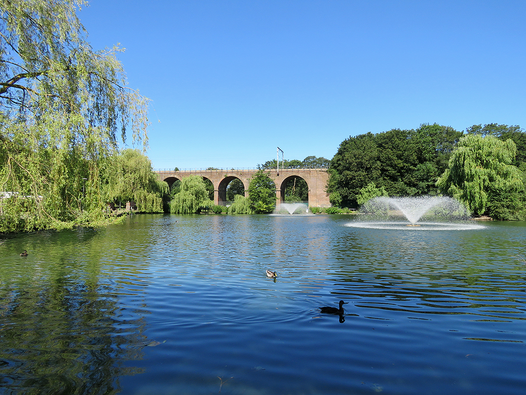 Central Park, Chelmsford; TL7006, viaduct, ducks and fountains